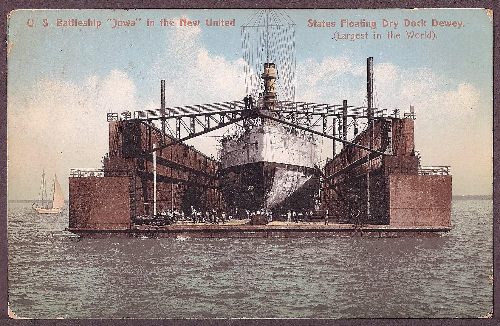 The Iowa (BB-04) in the New United States Floating Dry Dock Dewey (YFD-1) (Largest in the World)." -- Maker: Polychrome A-7642 Published by The American News Company New York, Leigzig, Dresden. Printed in Germany. No copyright. -- Picture taken 23-June-1905 in the Patuxent River MD. Postmarked 03-January-1912 aboard Potomac (AT-50), probably at Norfolk Navy Yard. -- The Dewey Dry Dock was launched 10-June-1905 at Sparrows Point MD and towed to deep water in the Patuxent River. On Friday 23-June the Dewey's first test lift was armored cruiser Colorado (ACR-7), her second test was the Iowa. Dewey passed both tests with flying colors.Photo & text courtesy of Bruce D. Liddell. NavSource Online: Battleship Photo Archive -- BB-4 USS IOWA -- 1901 - 1919 -- Source: [1]